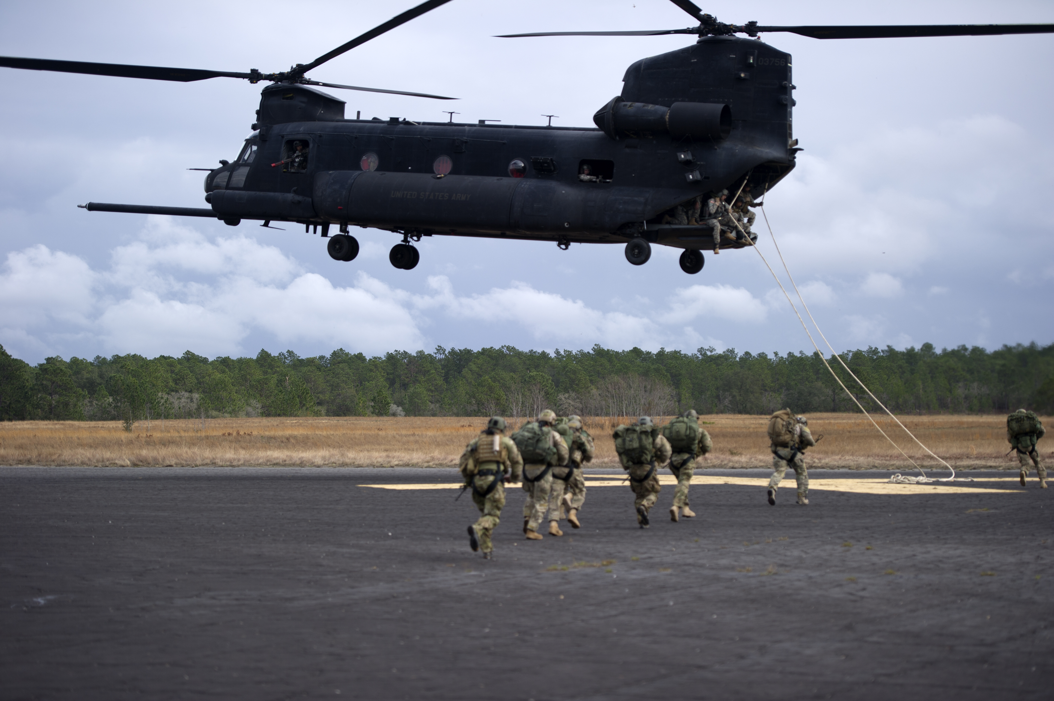 U.S. Soldiers of Operational Detachment Alpha, with the 7th Special Forces Group (Airborne), run towards a CH-47 Chinook helicopter during a training event at Eglin Air Force Base, Fla., Feb. 5, 2013. Green Beret Soldiers of 7th Special Forces Group practiced Special Purpose Insertion Extraction, a technique used to rapidly insert or extract Soldiers from terrain that does not allow helicopters to land. (U.S. Army photo by Spc. Steven Young/Released)